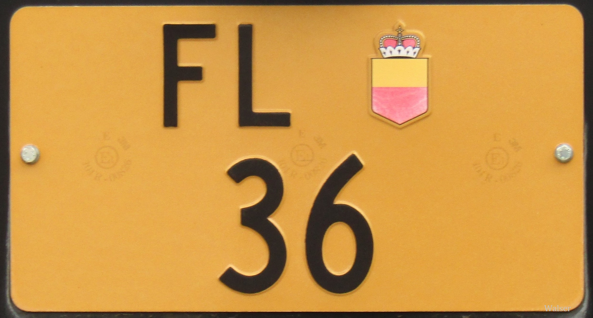 Liechtenstein license plate for exceptional vehicles (rear plate, high format, 30 x 16 cm)